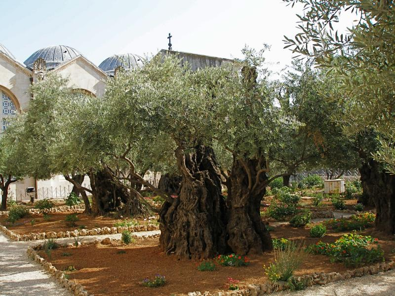 Trees beside the Church of All Nations